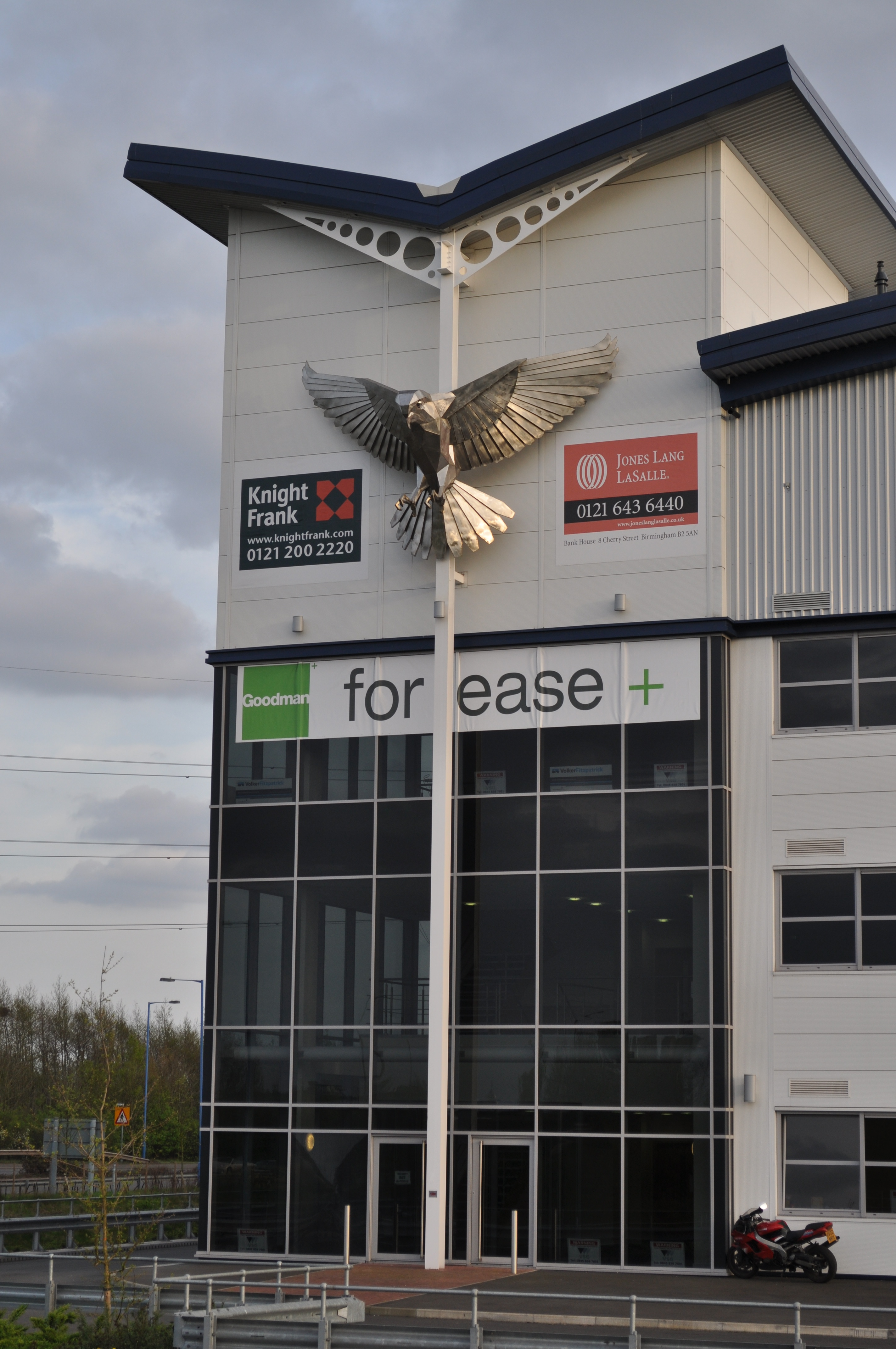 'Hovering Kestrel' stainless steel sculpture, fabricated in the A4A art for architecture studio, design by John McKenna ARBS & Steve Field. Sited at the Citadel Development, the 6m wingspan by 4m high stainless steel bird of prey is sited 14m high up on a tower building for a new build site on the Black Country Spine Route, Wolverhampton.